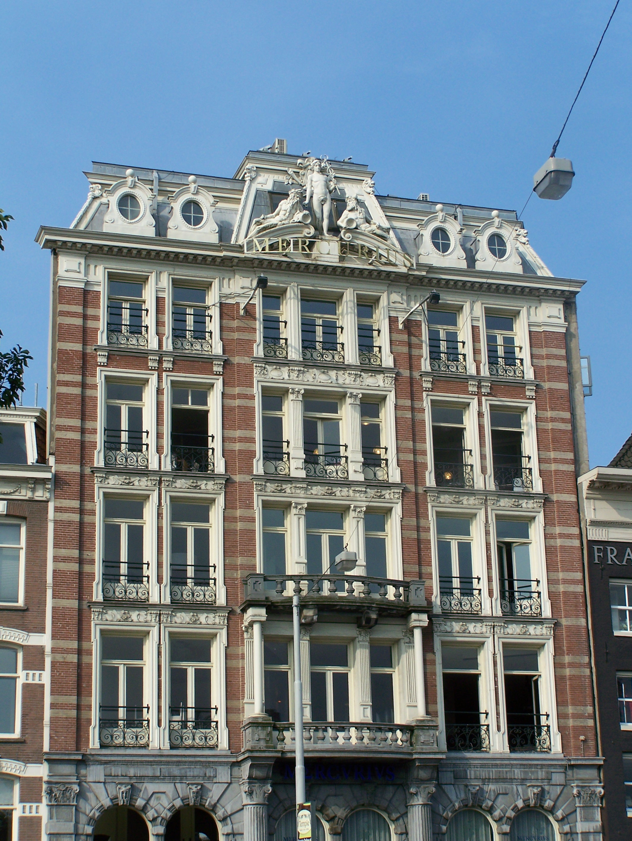 "Mercuriusbuilding", originally a shopping mall with hotel "De Passage" built by Yme Gerardus Bijvoets in 1883. Transformed in a hotel, Hotel De l’ Europe, around 1886. After they moved in 1892 it was transformed into what it is now, an office building. Prins Hendrikkade 20-21, Amsterdam.